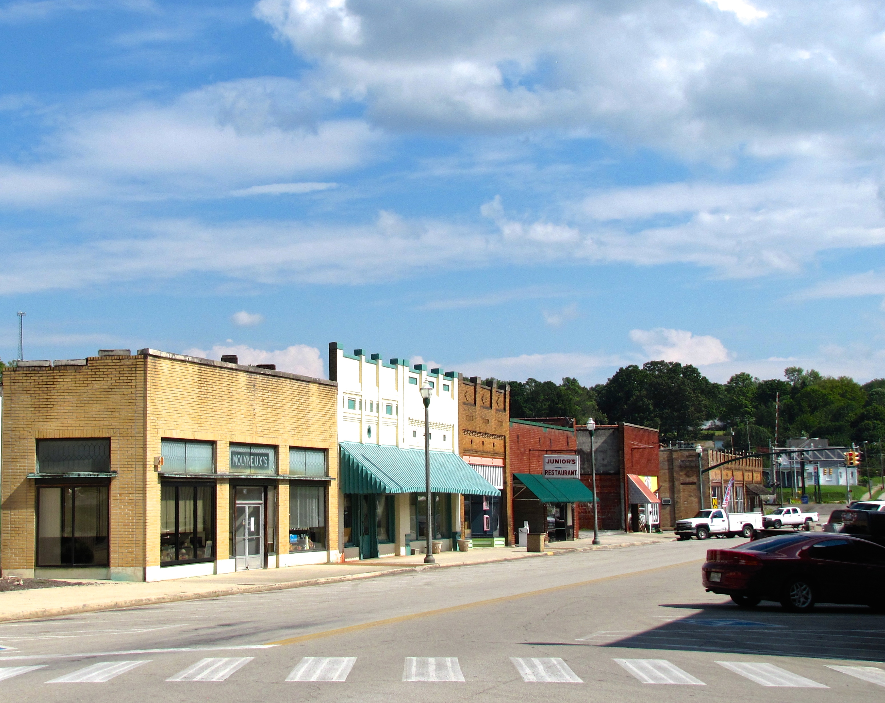 Buildings along Rockwood Street in Rockwood, Tennessee, United States.